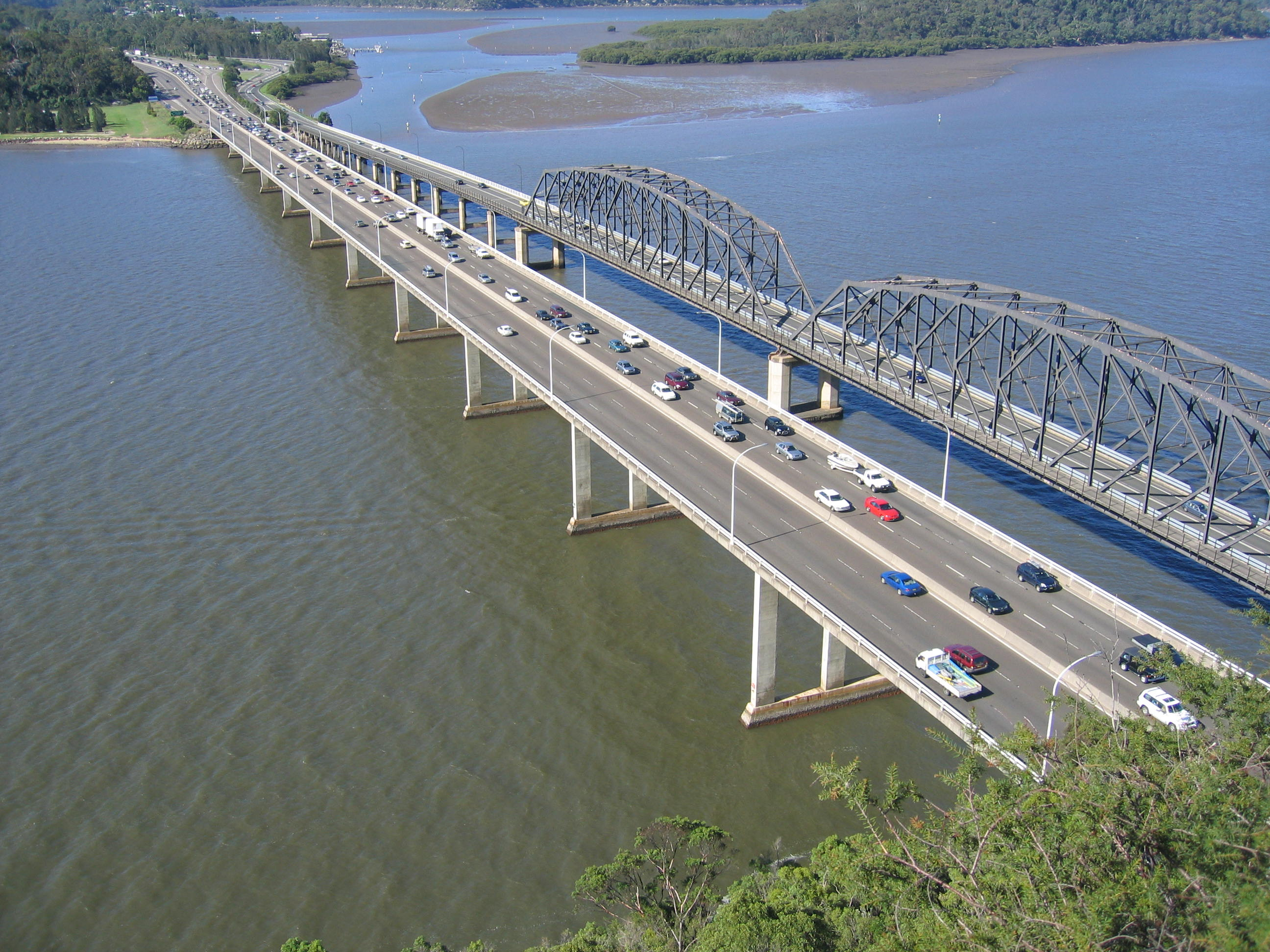 The Hawkesbury River road bridges in New South Wales, Australia. The Peats Ferry Bridge, pictured to the right, carries the Pacific Highway. The Brooklyn Bridge on the left carries the Pacific Motorway.